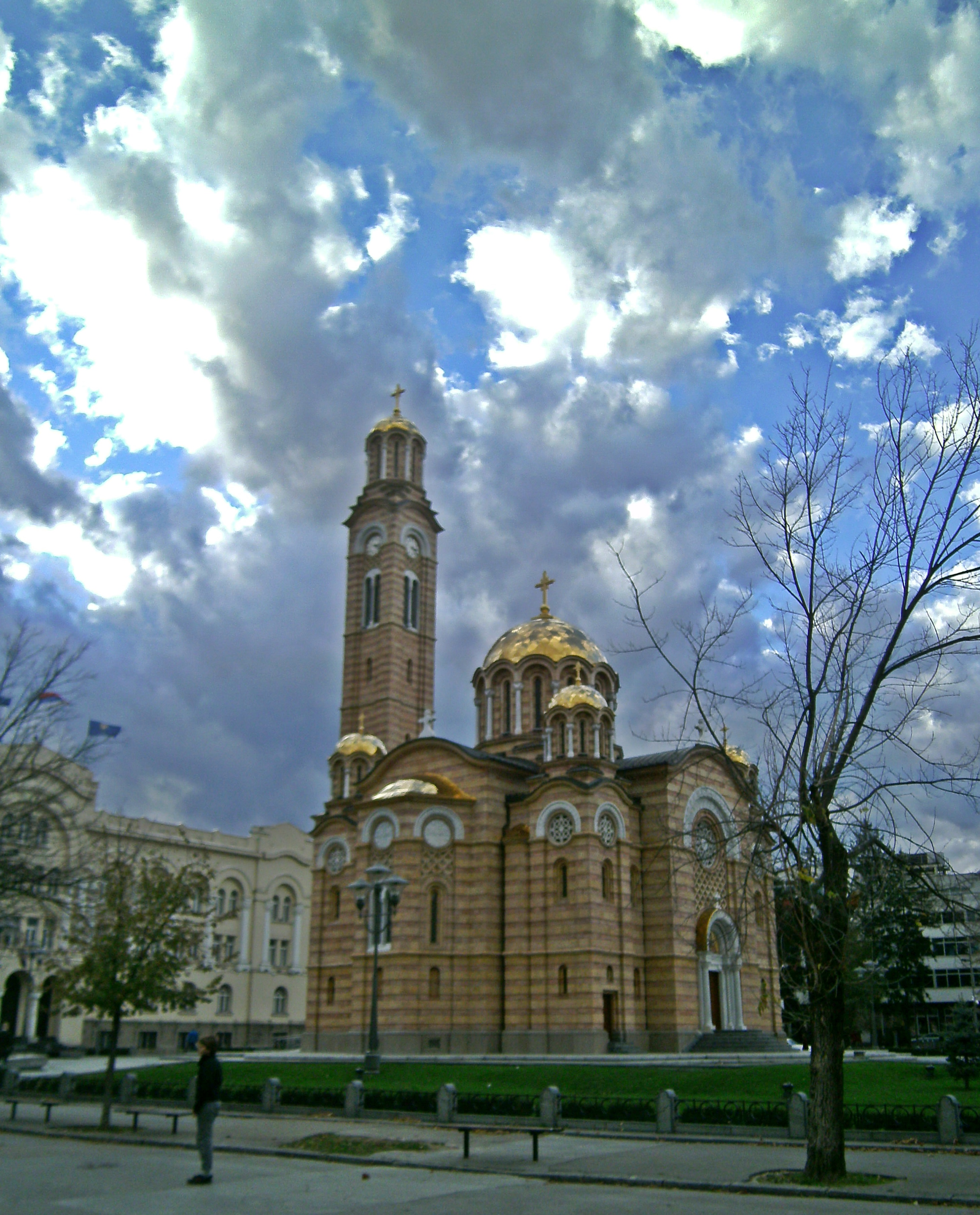 Cathedral of Christ the Saviour Orthodox church Banja Luka Srpska Bosnia